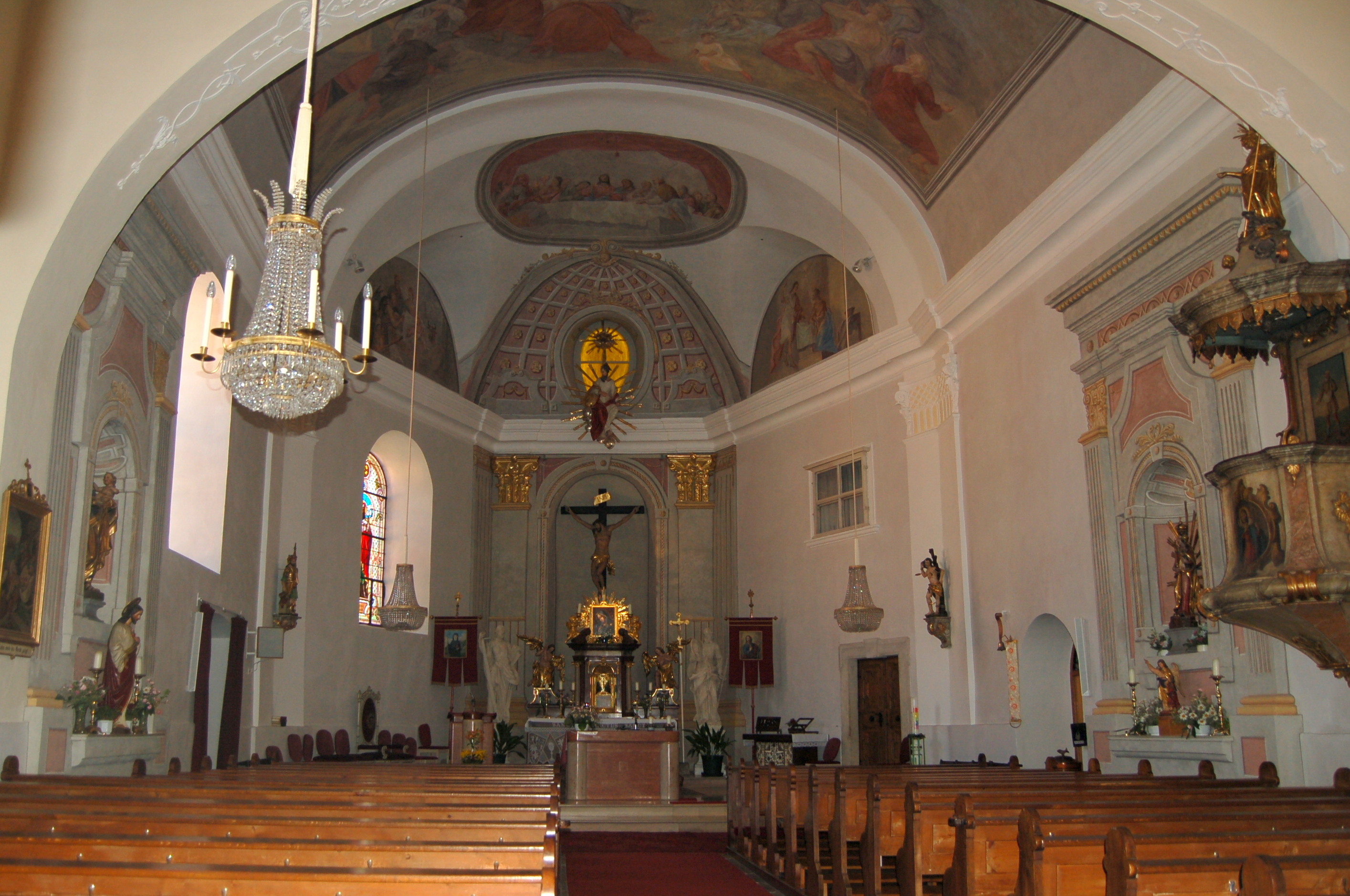 Interior of Saints Simon and Thaddeus parish church in Gars am Kamp, Lower Austria